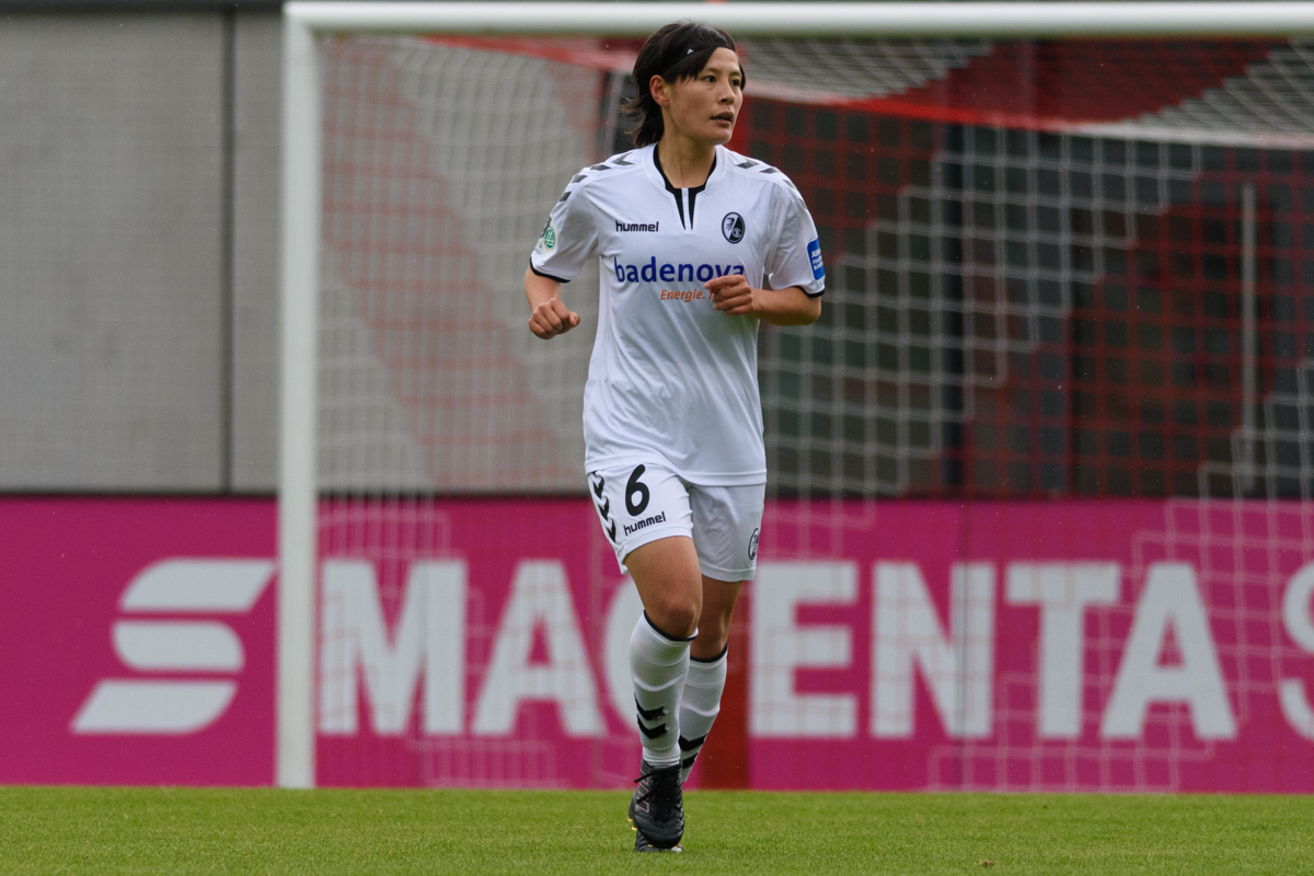 Hikaru Naomoto during FC Bayern (women) vs SC Freiburg (women), May 2019